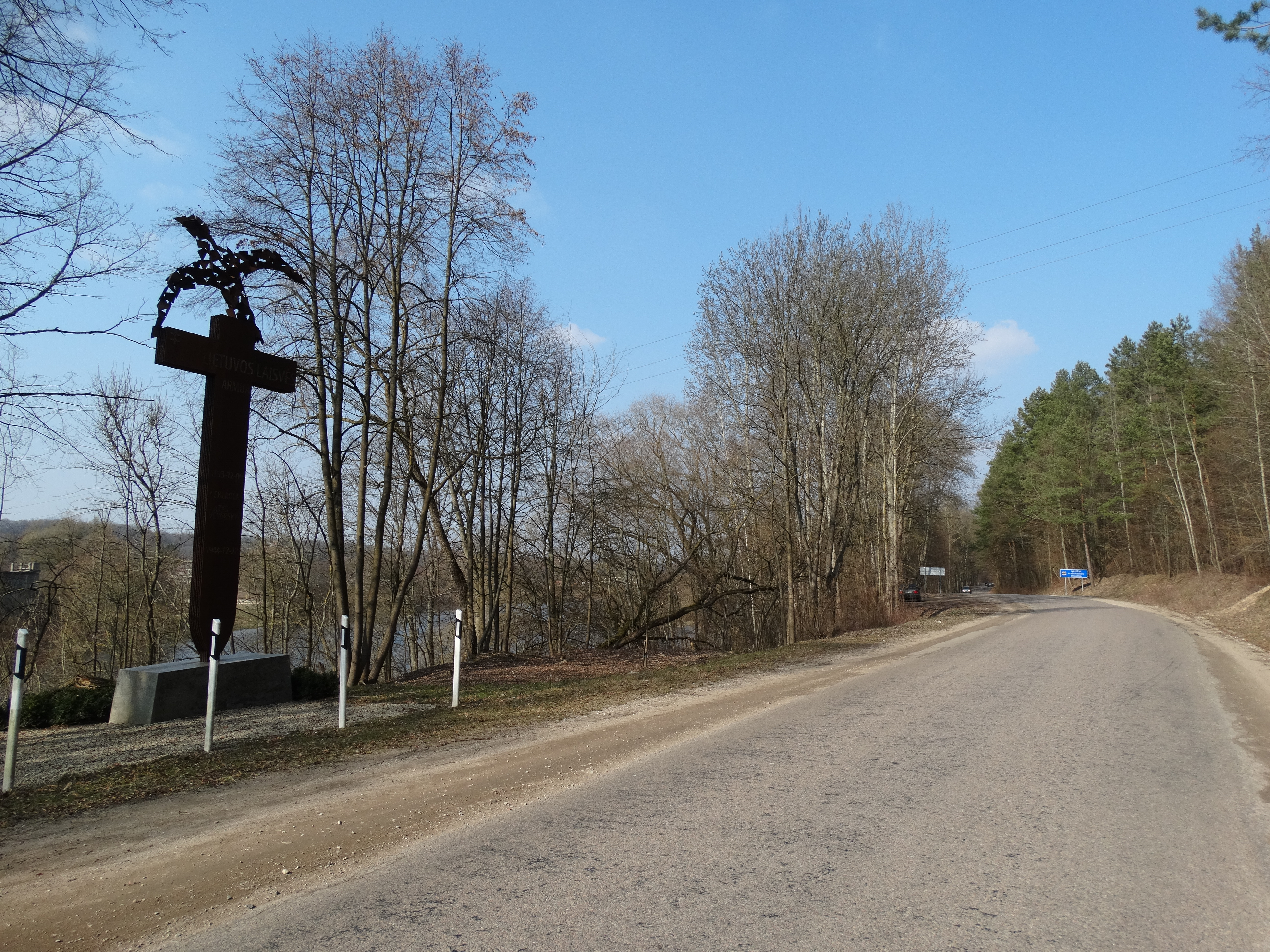 Spot of death of partisan K. Veverskis, Kaunas district, Lithuania